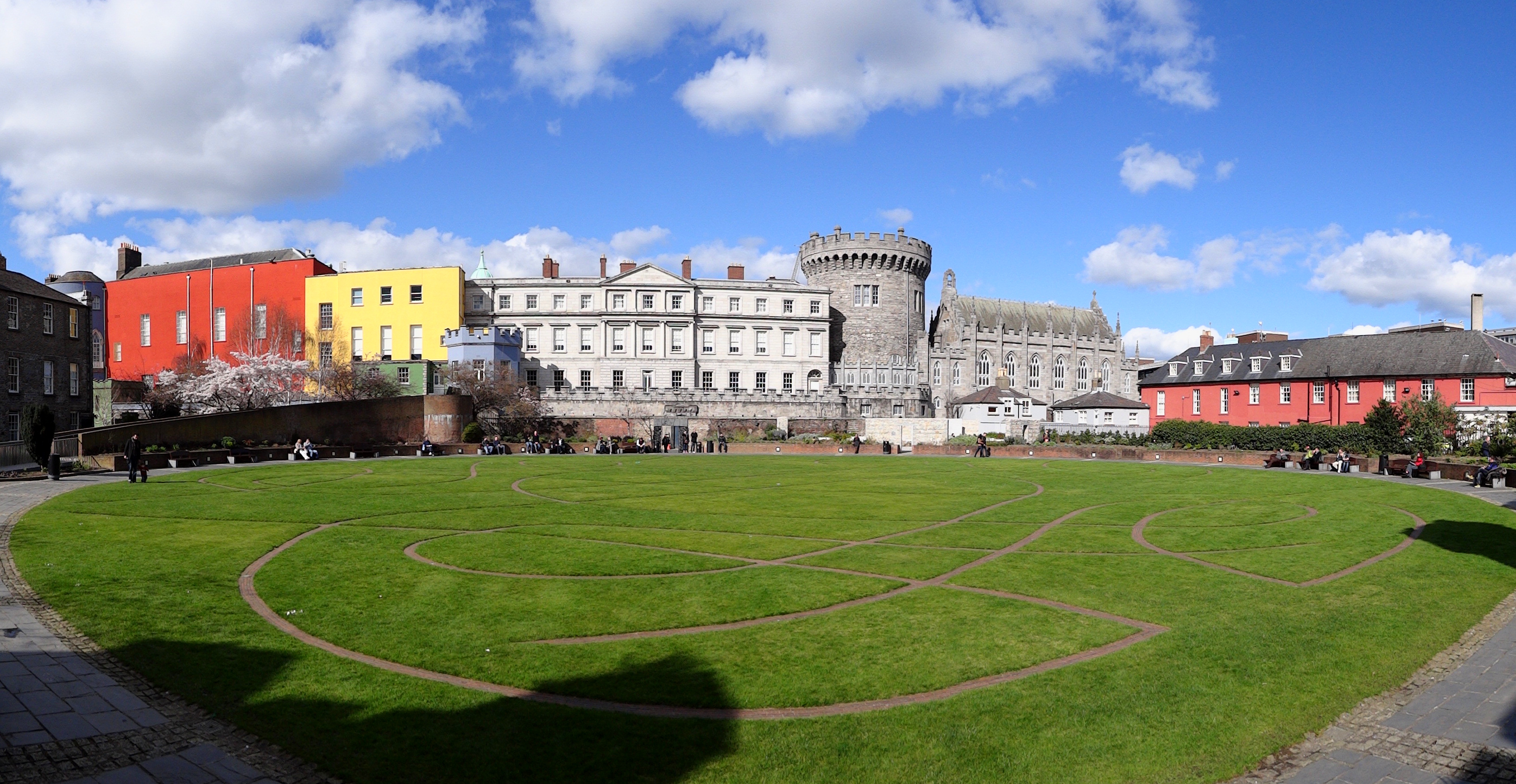 Dublin Castle seen from the "back side", a park surrounded by the Chester Beatty Library on the west side (barely showing in the left side of the photo), a police station on the east side (showing to the right, a light red building), and Dublin Castle on the north side. The bits of the castle shown here are, from left to right or west to east, (barely, the bluish tower partially covered by the library building) The Bermingham Tower, the red Saint Patrick's Hall, the yellow Battleaxe Landing, the bluish-grey Octagonal Tower, the State Apartments, the Record Tower (the tallest bit) and finally the Chapel Royal.